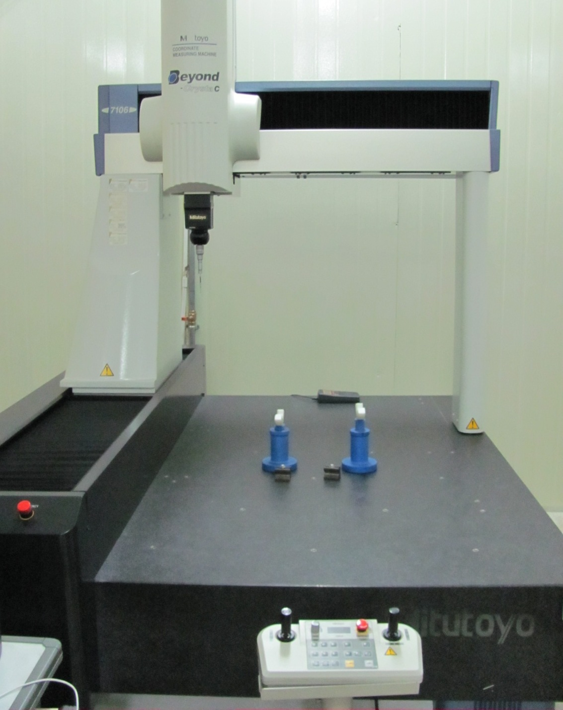 CMM - Mitutoyo 7106 Beyond Crysta